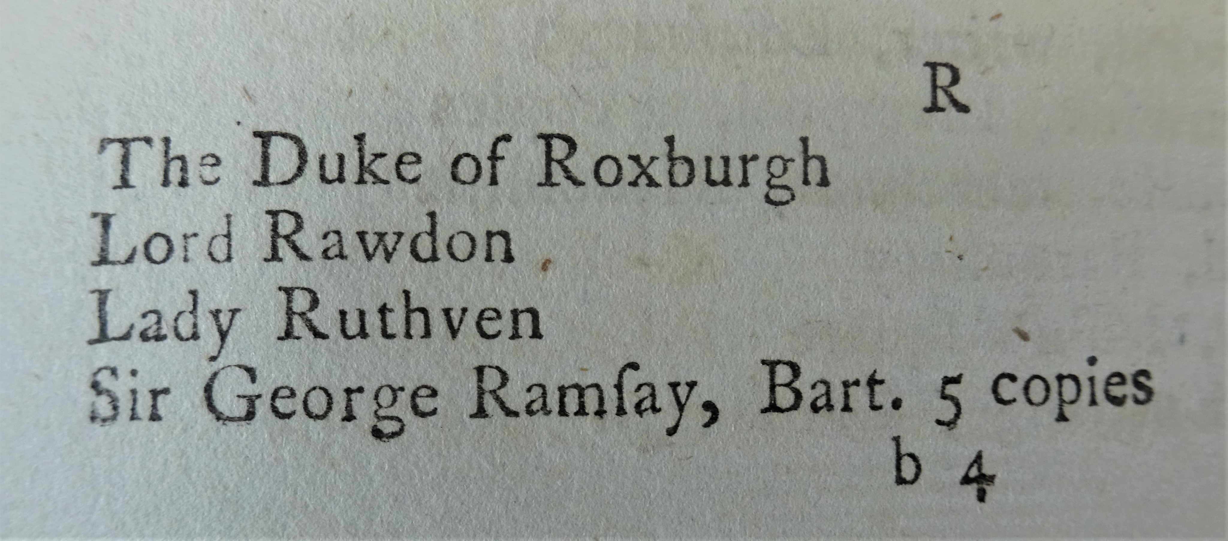 The Subscribers Page detail of the 'London Edition' of the 'Poems' of Robert Burns showing the correction of Boxburgh to Roxburgh.